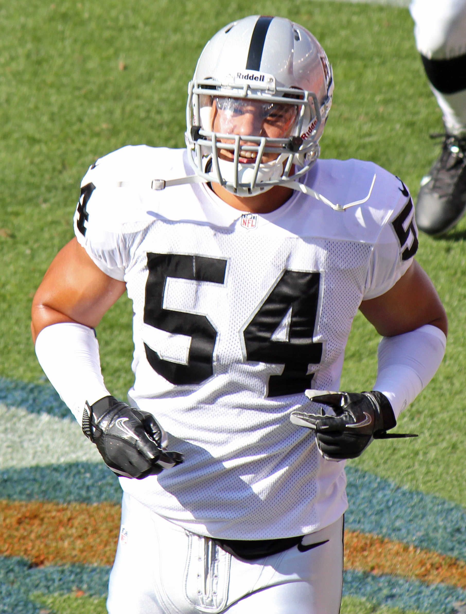 Vic So'oto, a player on the National Football League.